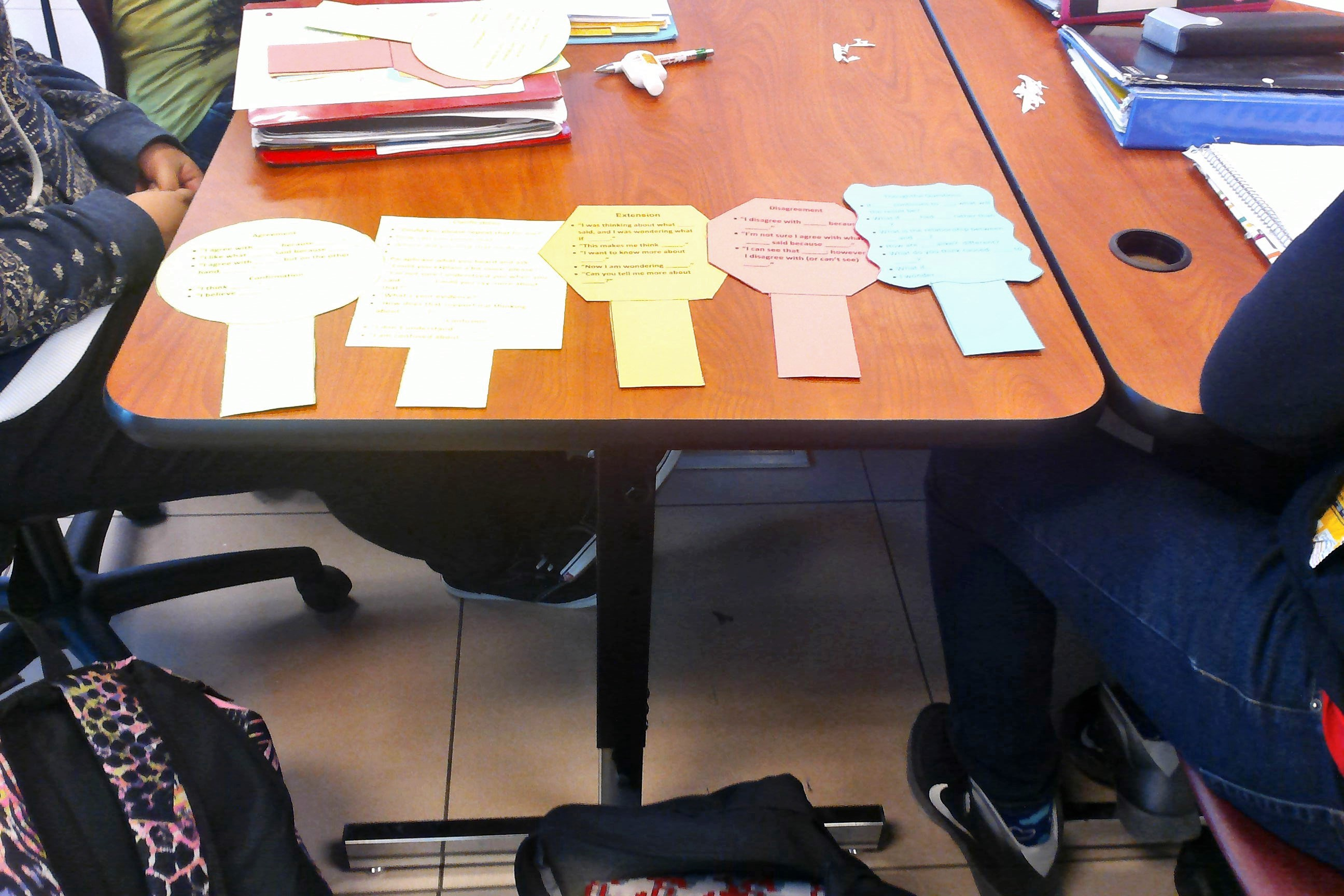 Discussion paddles are used in Socratic seminars to generate student led discussions. These teaching devices have been used in the school's English department. The paddles seen here were used by Ms. Rossetti and Mr. Deutsch in their Integrated co-teaching class.